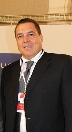 2 Congress of the Party of Civic Platform (Russia), member of the Central Council of the party, journalist Aleksandr Lyubimov